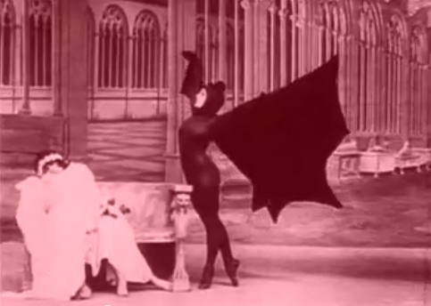 1915 screenshot of actress Napierkowska in the Louis Feuillade-directed film series Les Vampires